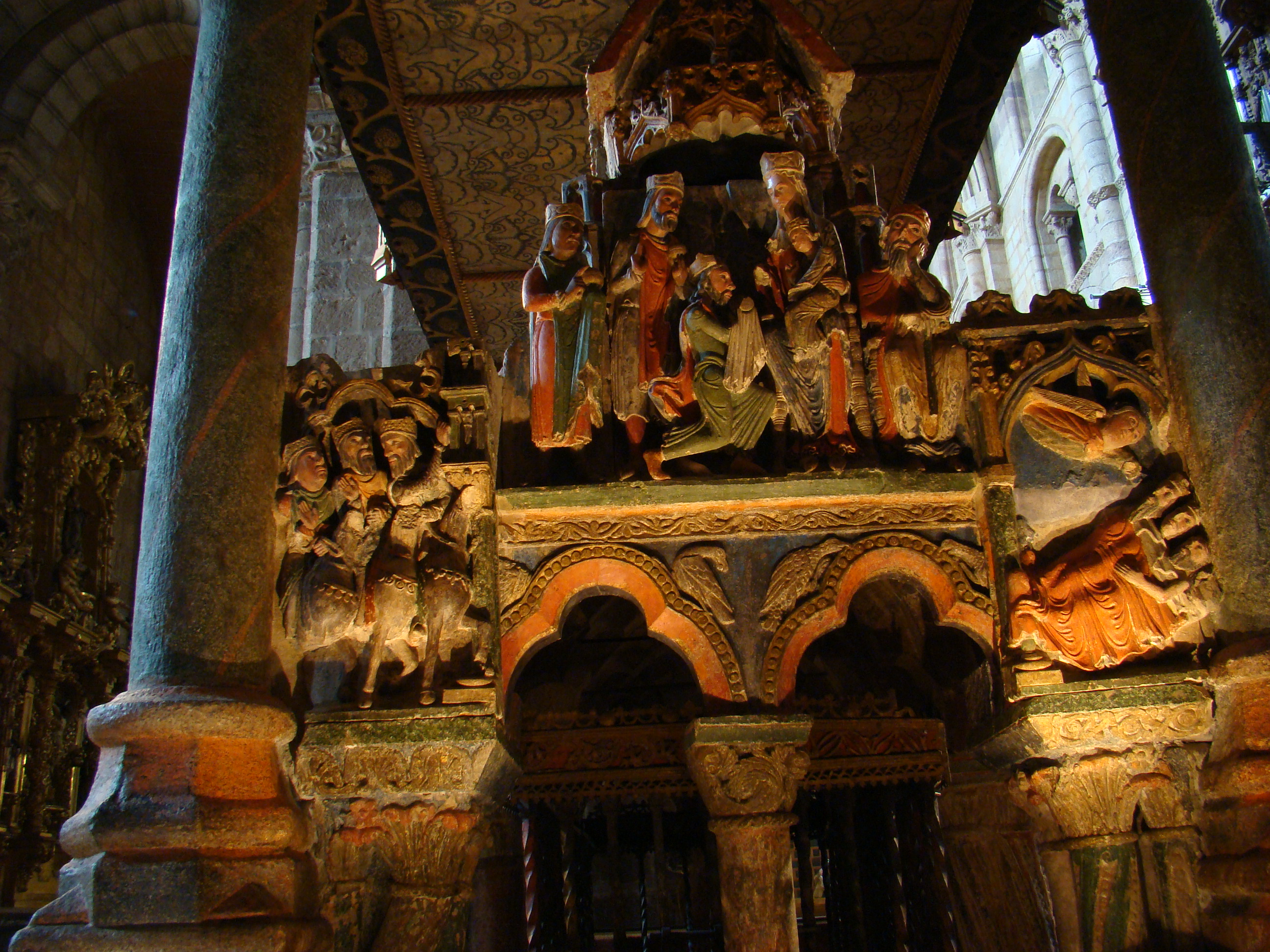 Romanic cenotaph of the martyrs saints Vicente, Sabina and Cristeta in the basilica of San Vicente, Ávila (Spain). It is located under the transversal arch of the epistle. It was built by the master Fruchel (or Eruchel). Adoration of the magi on the top of the cenotaph with the mystic dream of Joseph. Below, on the left, the magi travelling and on the right the dream with the visitation of the angel.